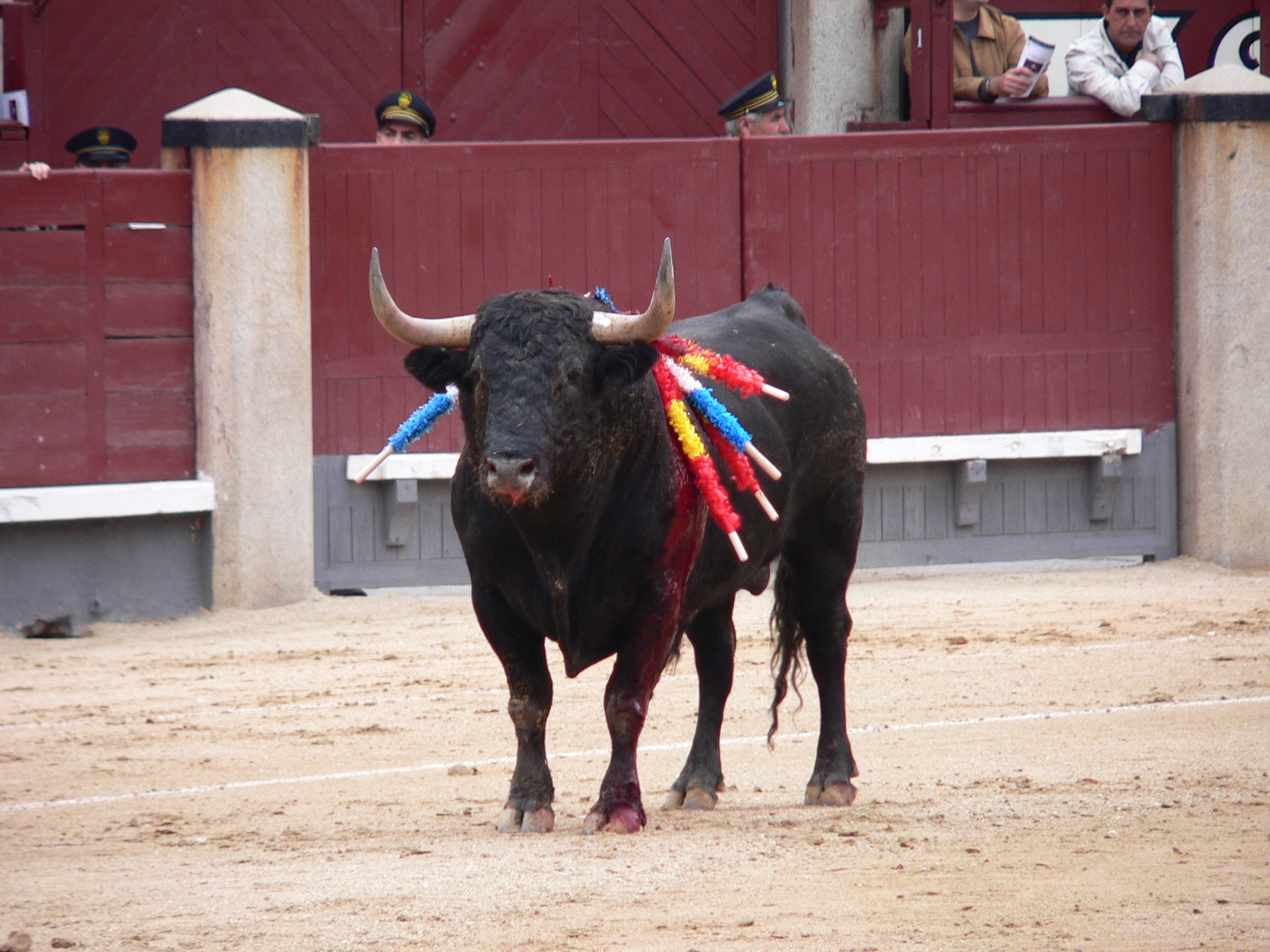 Bull with banderillas, Plaza de Toros Las Ventas, Madrid, Spain.